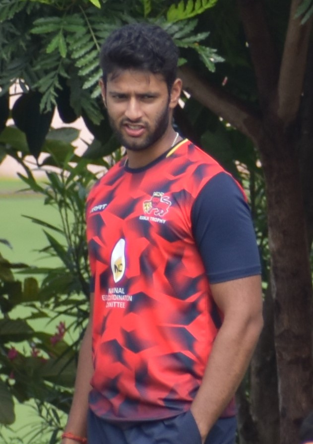 Indian cricketer Shivam Dube during the 2019-20 Vijay Hazare Trophy in Alur, Bangalore.